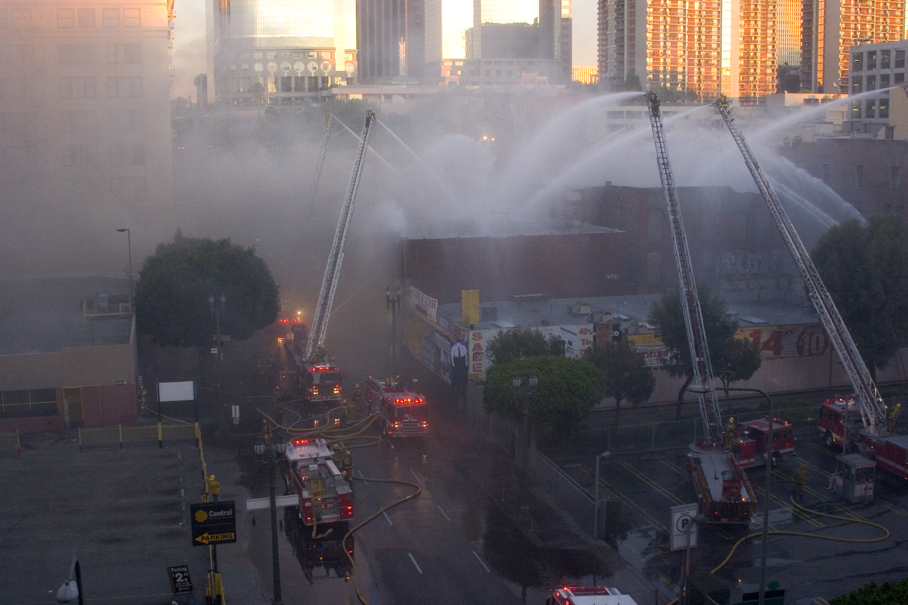 Firefighting ladder trucks in Los Angeles, February 05, 2007